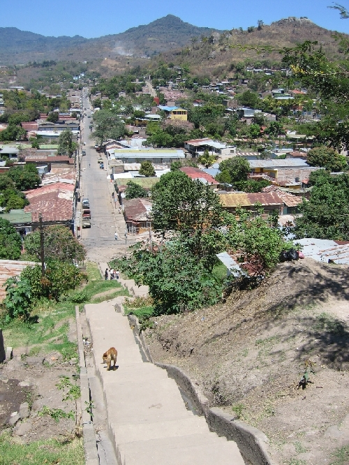 Matagalpa Nicaragua